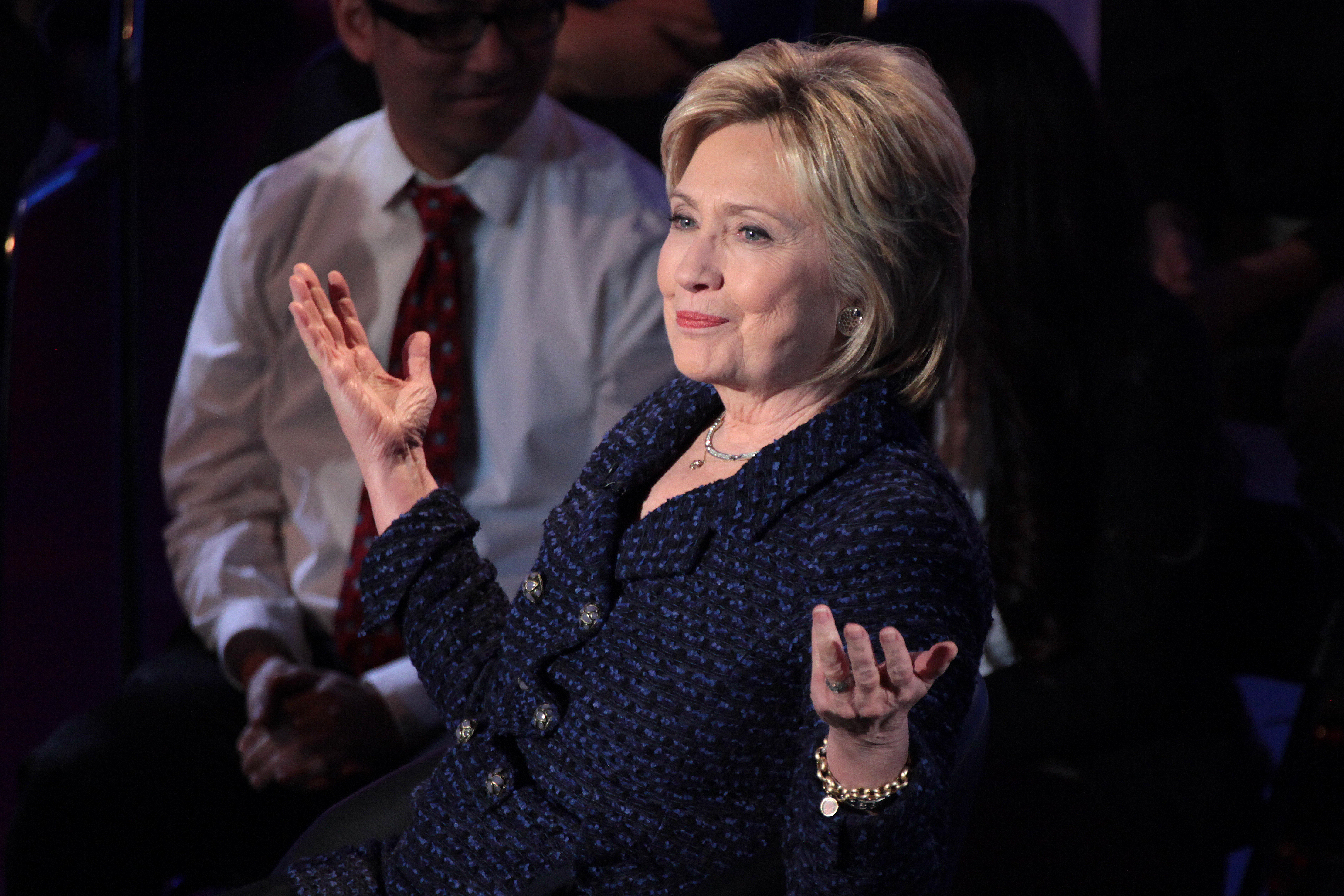 Former Secretary of State Hillary Clinton speaking at the Brown & Black Presidential Forum at Sheslow Auditorium at Drake University in Des Moines, Iowa.